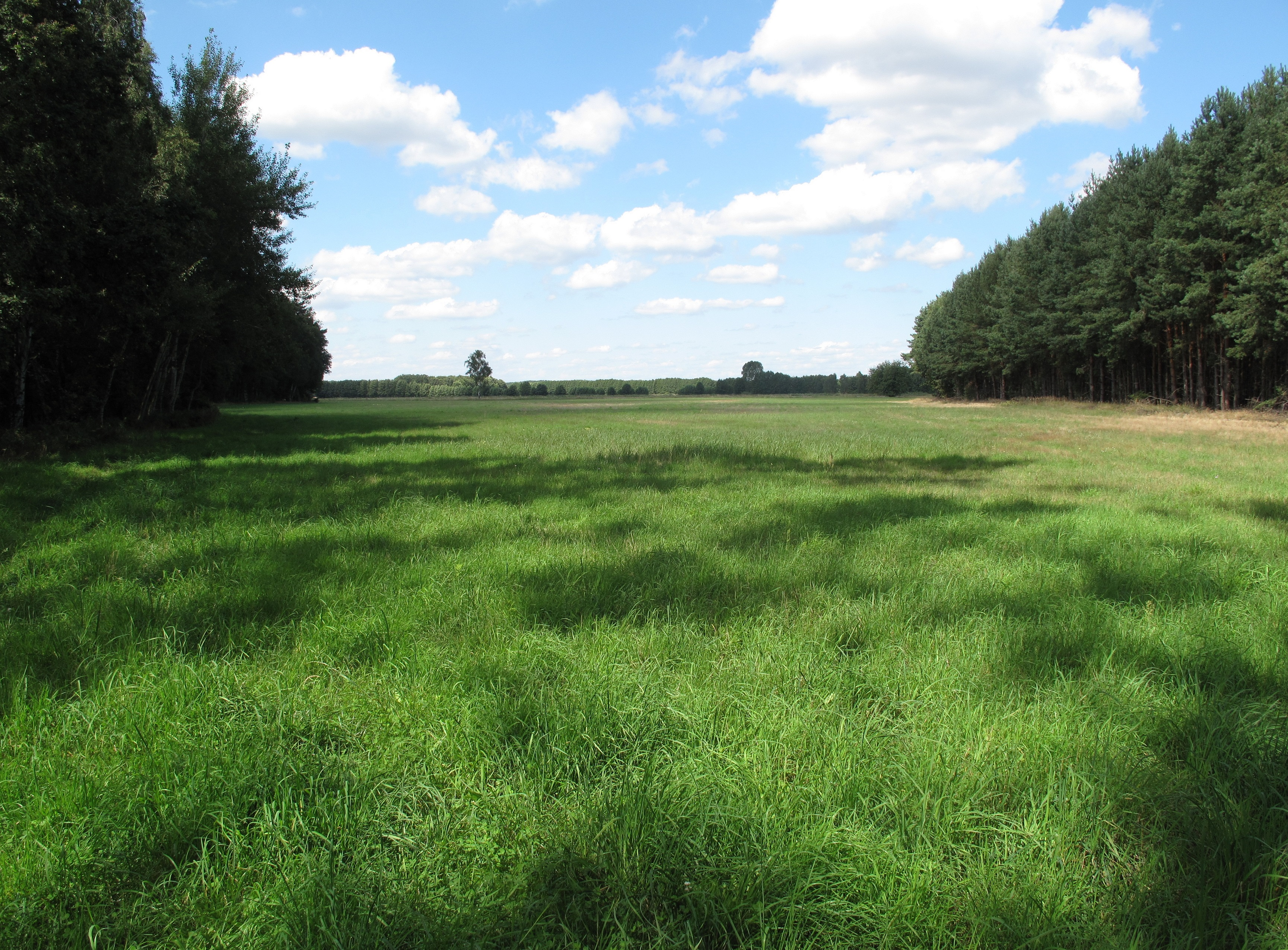 Meadow with Lolium perenne in the Naturschutzgebiet Storkower Kanal. The „Naturschutzgebiet Storkower Kanal “ is a Naturschutzgebiet (protected area) and Natura 2000-area in the districts Oder-Spree and Dahme-Spreewald in Brandenburg, Germany. The area covers about 97 hectare and is situated in the Dahme-Heideseen Nature Park. It is nestled along the „Stahnsdorfer Fließ“ (little stream) and along the west part of the eponymous Storkower Kanal (water canal).